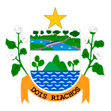 Coat of arms of Dois Riachos, a municipality of the Brazilian state of Alagoas